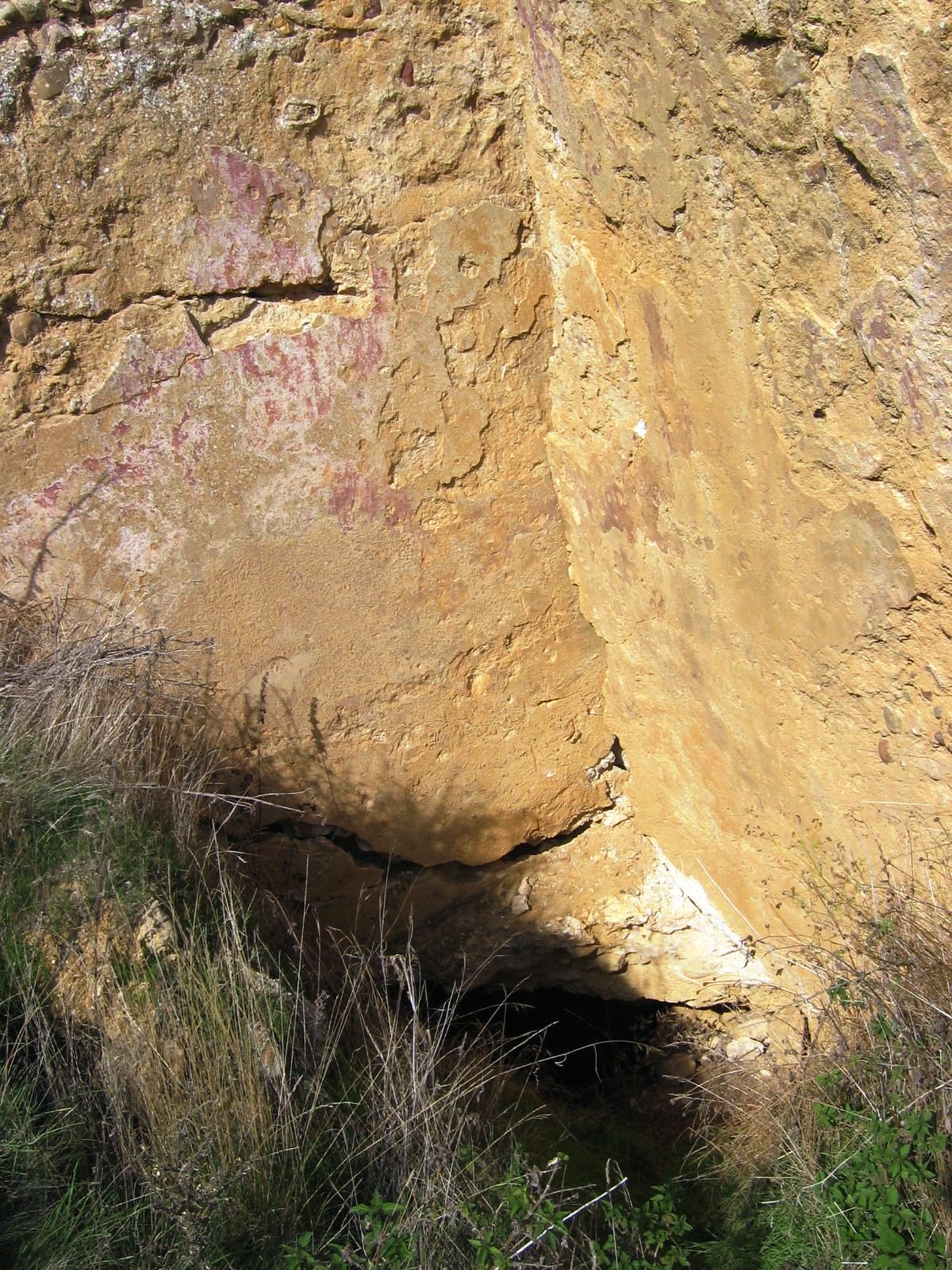 Castillo de Saldaña